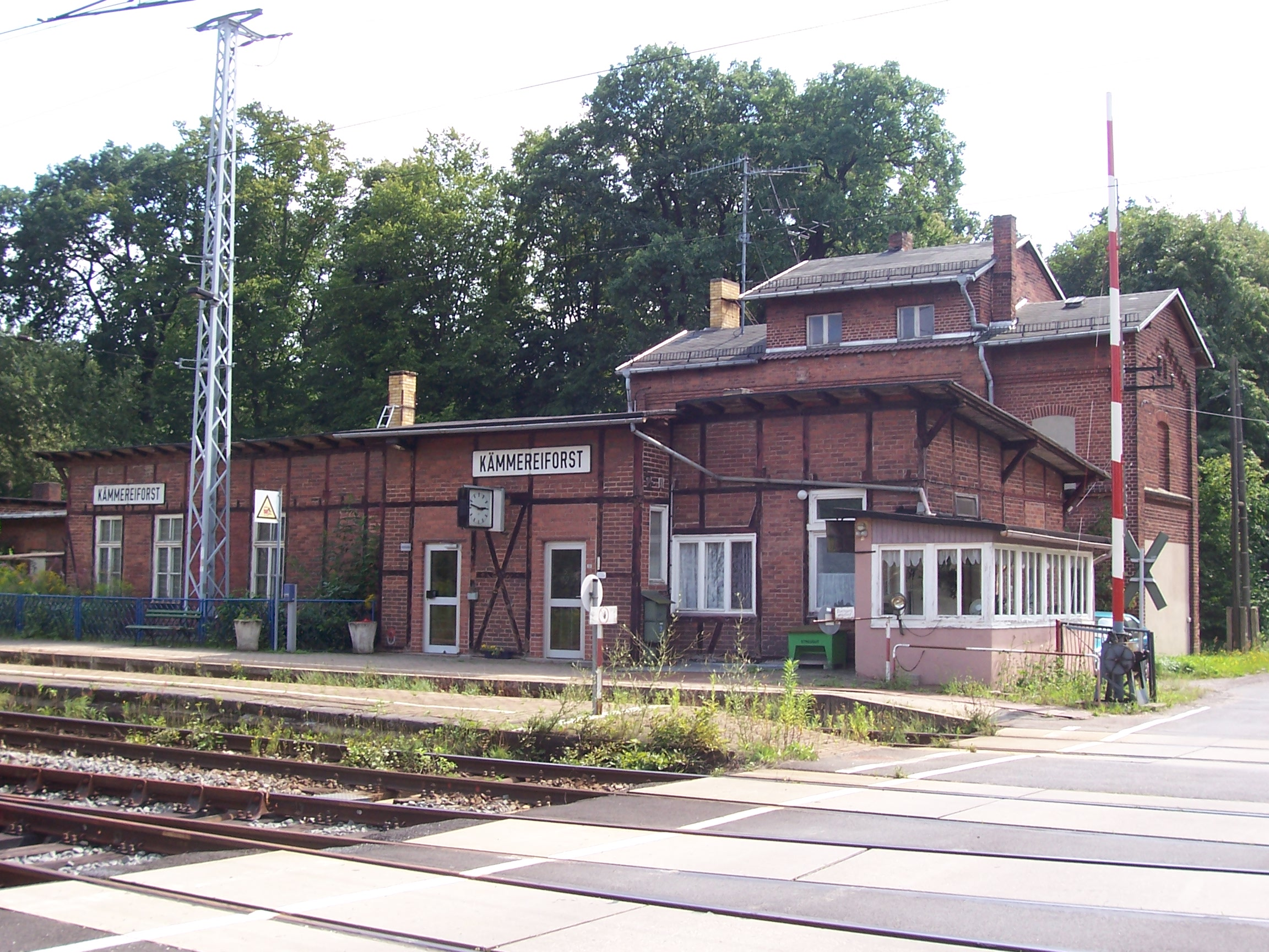 railway station Kaemmereiforst